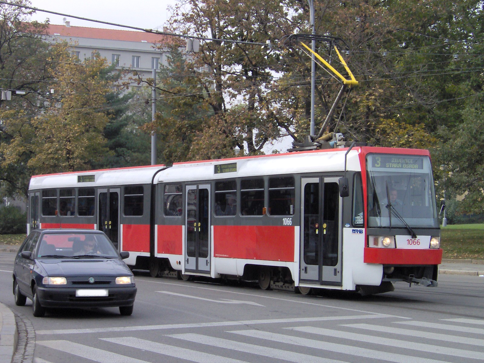 Tramway Tatra K2R, Brno, Czech Republic